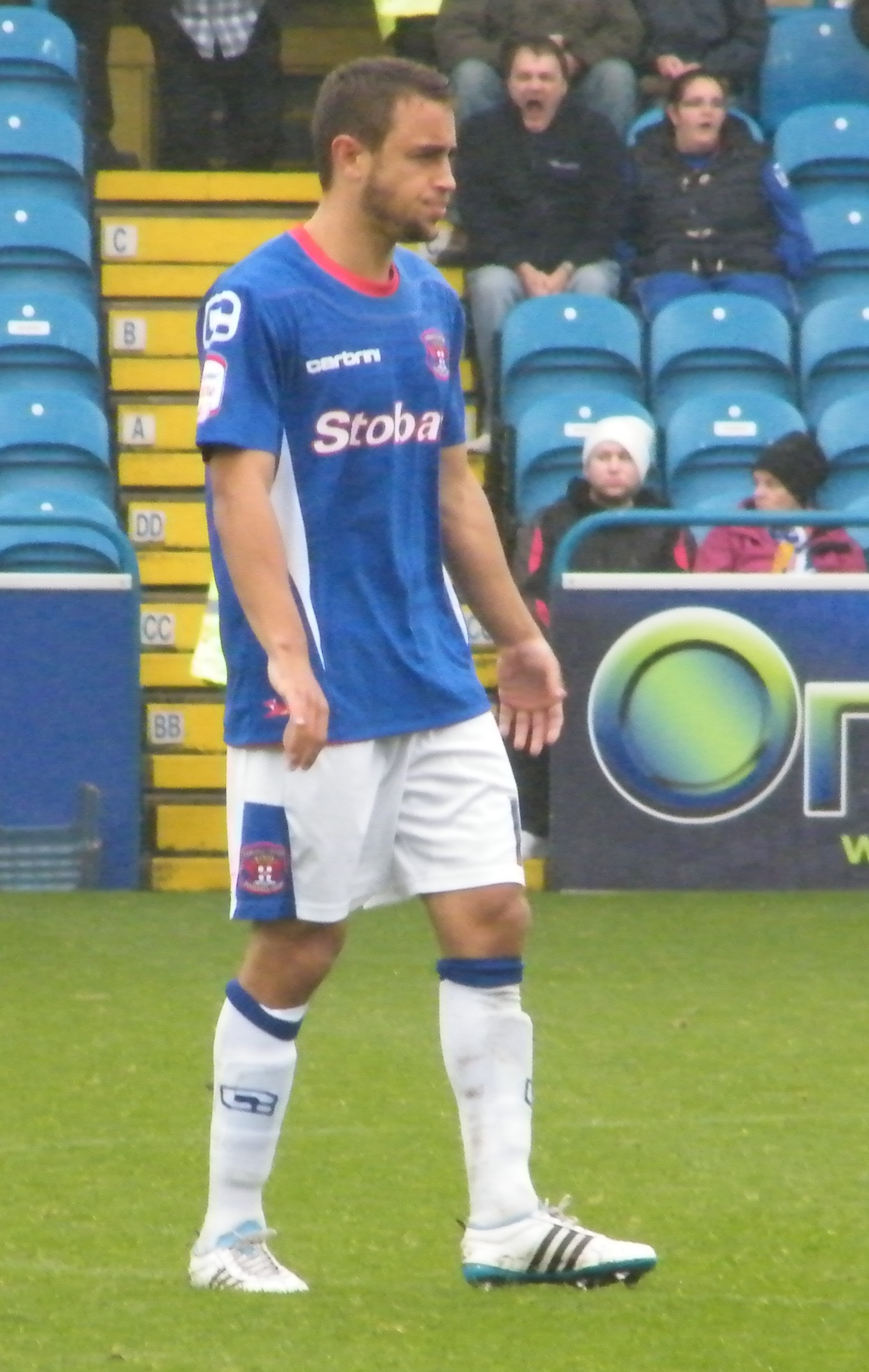 Carlisle V Brentford 8th October 2011